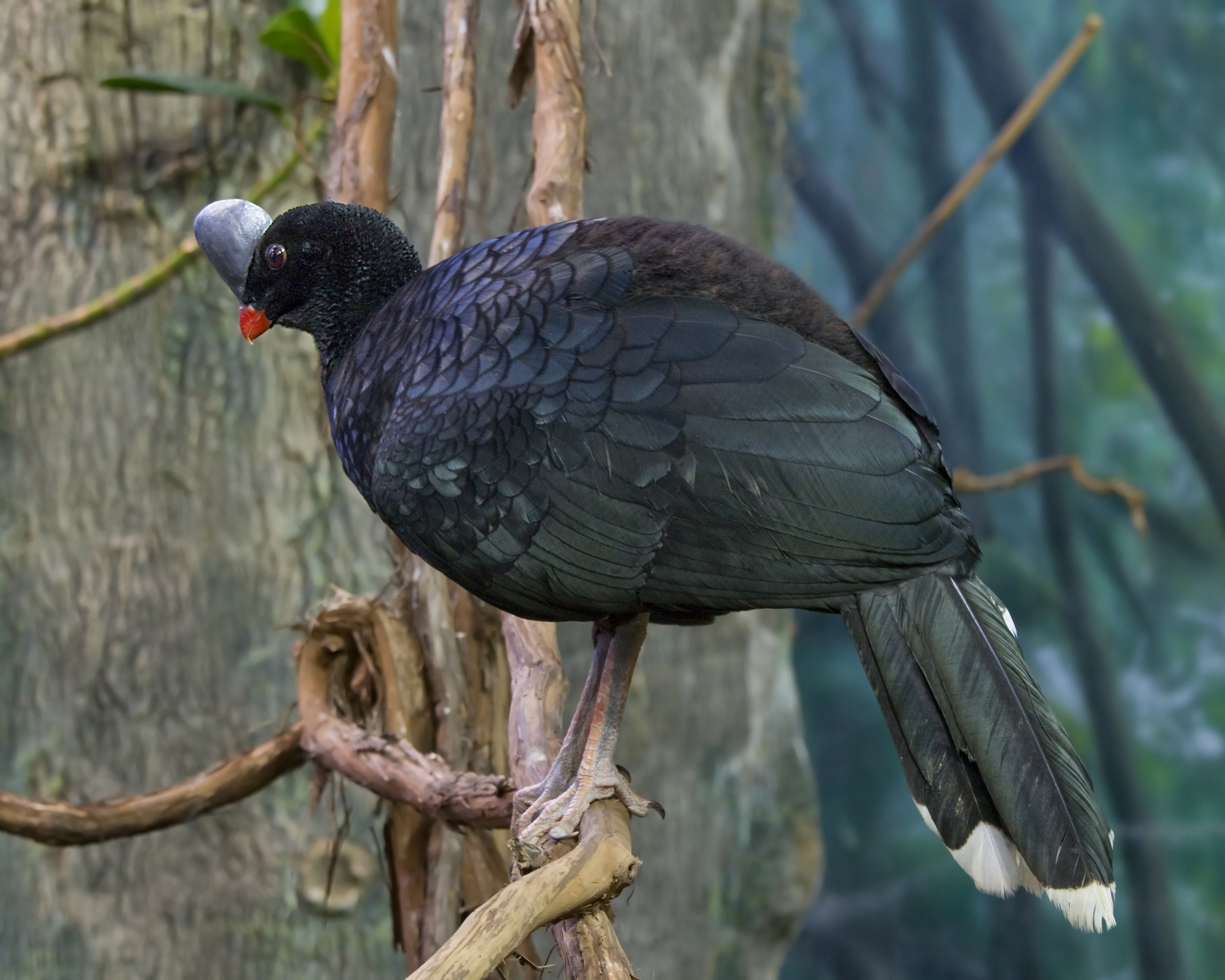 Northern Helmeted Curassow at the Cincinnati Zoo.